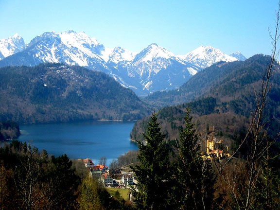 Photo of lake Alpsee, Germany